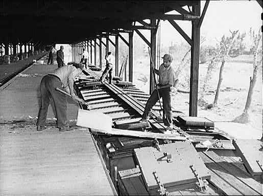 Men loading ice blocks into reefers. Taken by the collection of the Farm Security Administration - Office of War Information at the Library of Congress.